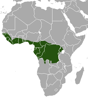 Prince Demidoff's Bushbaby (Galago demidoff) range